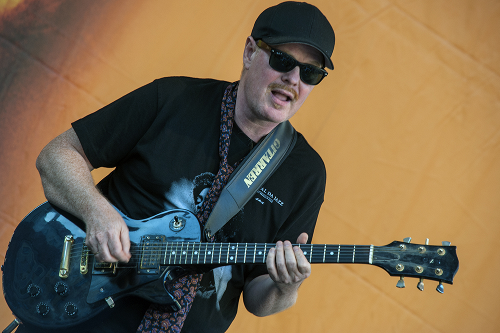 Swedish guitar player Ulf Wakenius in open-air concert at the Old Town's Square, Warsaw, Poland on July 23, 2016.